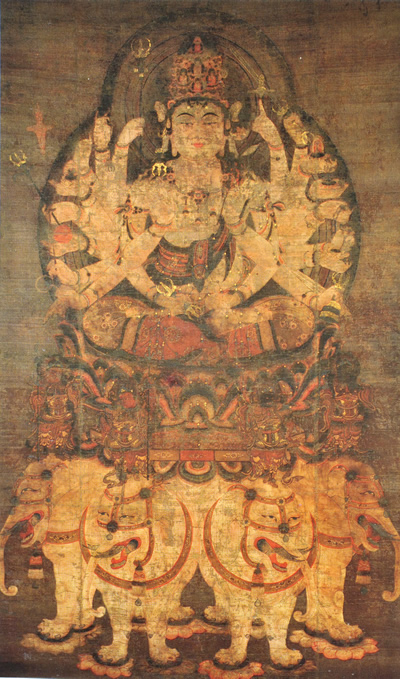 Fugen Enmei (Samantabhadra) (絹本著色普賢延命像, kenpon chakushoku fugen enmei zō). Hanging scroll. Color on silk. Located at Jikō-ji (持光寺), Onomichi, Hiroshima. The scroll has been designated as National Treasure of Japan in the category paintings.